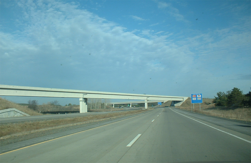 WIS 29 East interchange with Interstate 39 and U.S. Route 51.